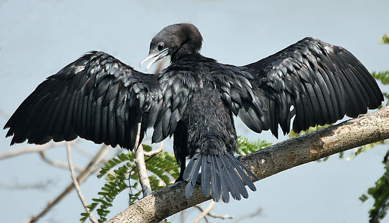 Little Cormorant Phalacrocorax niger in Kolkata, West Bengal, India.